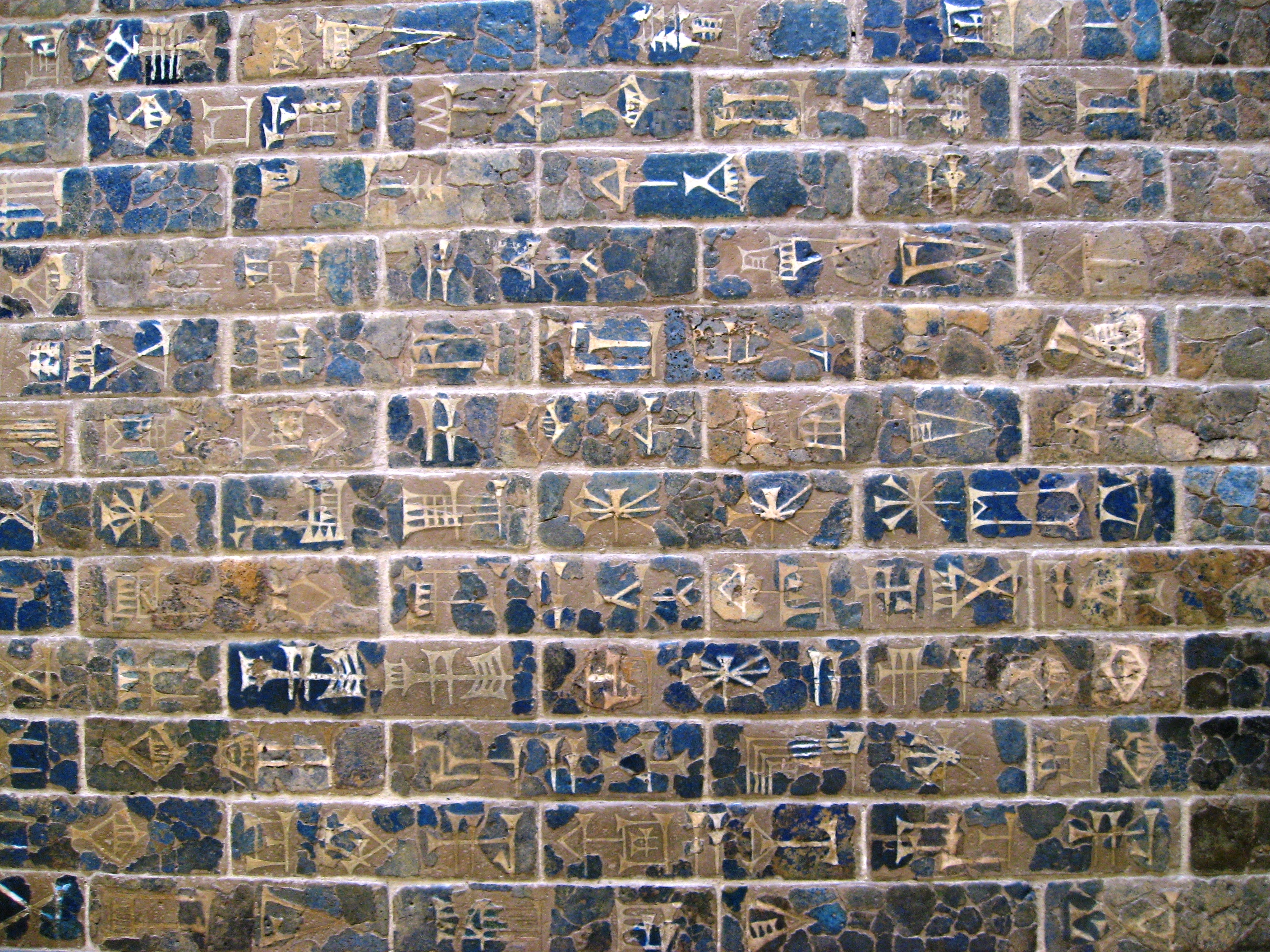 Building Inscription of King Nebukadnezar II, 604-562 BC. During the excavations of Babylon, in the immediate vicinity of the Ishtar Gate, numerous fragments of bricks with remains of white-glazed cuneiform characters have been found. These fragments obviously belonged to a building inscription of Nebuchadnezzar II at the gate. Their exact location is unknown but there is no doubt that the text refers to the construction of the gate. The text was restored by comparison to with another complete inscription on a lime stone block and gives three excerpts of this main inscription of the king. Abridged excerpt: "I (Nebuchadnezzar) laid the foundation of the gates down to the ground water level and had them built out of pure blue stone. Upon the walls in the inner room of the gate are bulls and dragons and thus I magnificently adorned them with luxurious splendour for all mankind to behold in awe."